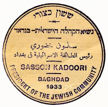 Embedom of the President of the Jewish Iraqi community 1933. My father owns this.